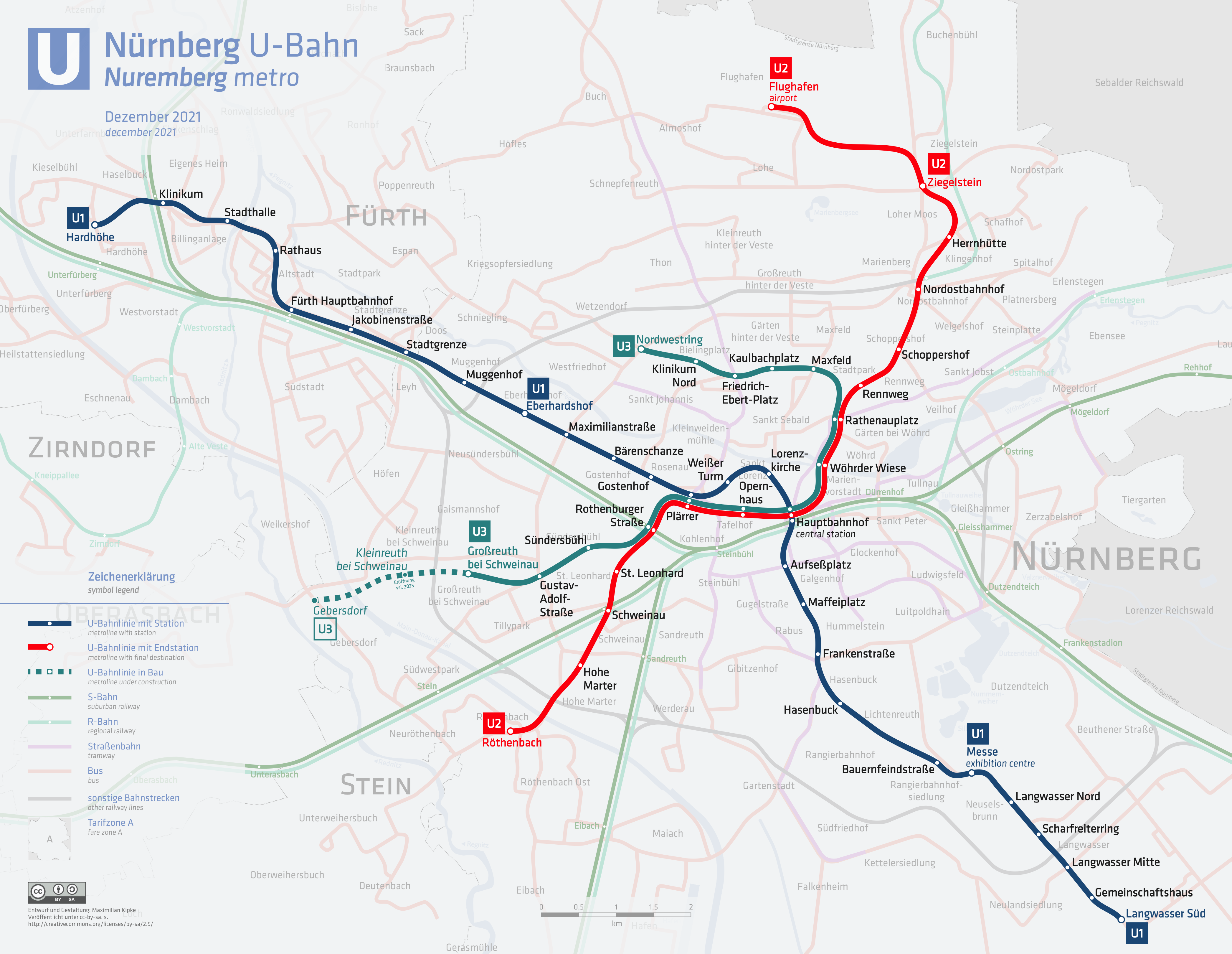 Map of the nuremberg metrolines